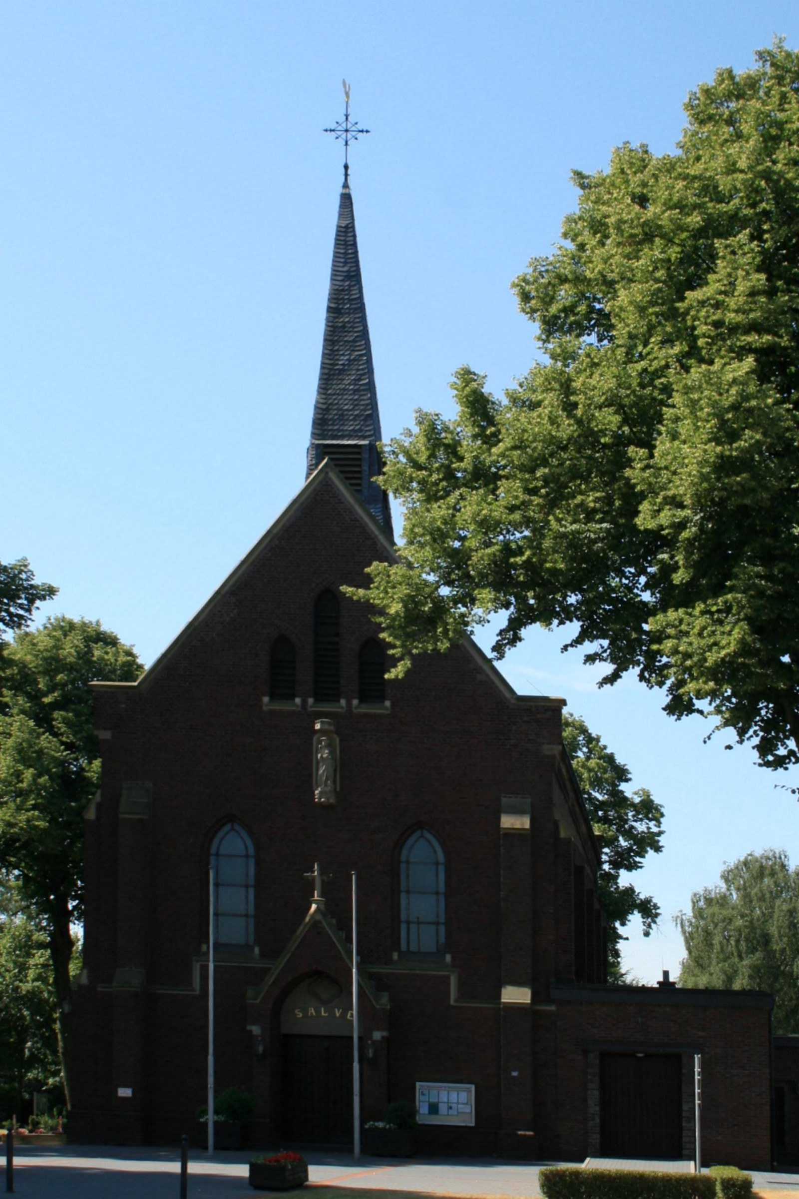 Cultural heritage monument No. R 068 in Mönchengladbach